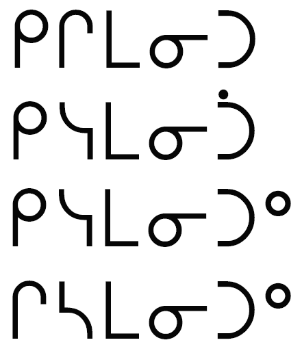 Gitche Manitou in Cree syllabic: Kicemanito (Cree New Testament 1876) Kisemanitô (Cree Bible 1862) Kisemanitow (Cree New Testament 1904) Chisamanitu (Naskapi New Testament 2007)